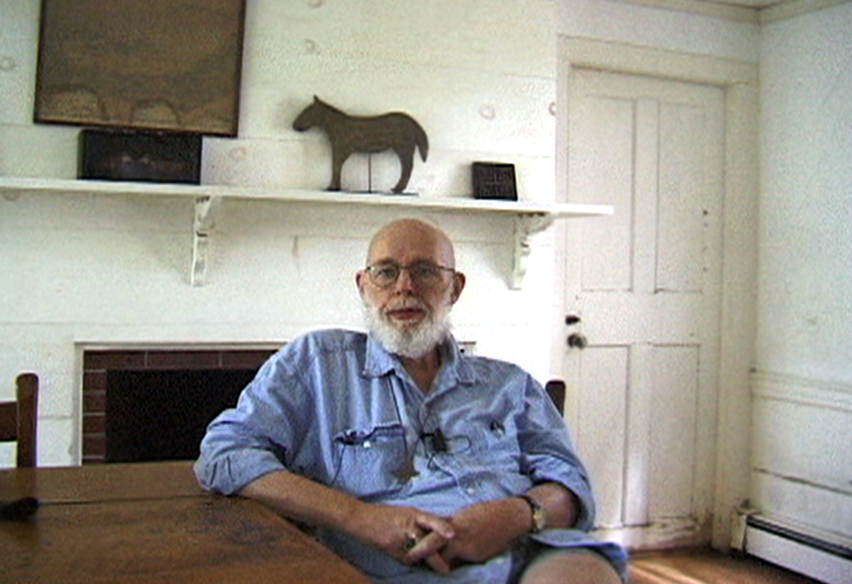 The late illustrator Edward Gorey in the kitchen of his home at Yarmouth, Cape Cod in August, 1999.